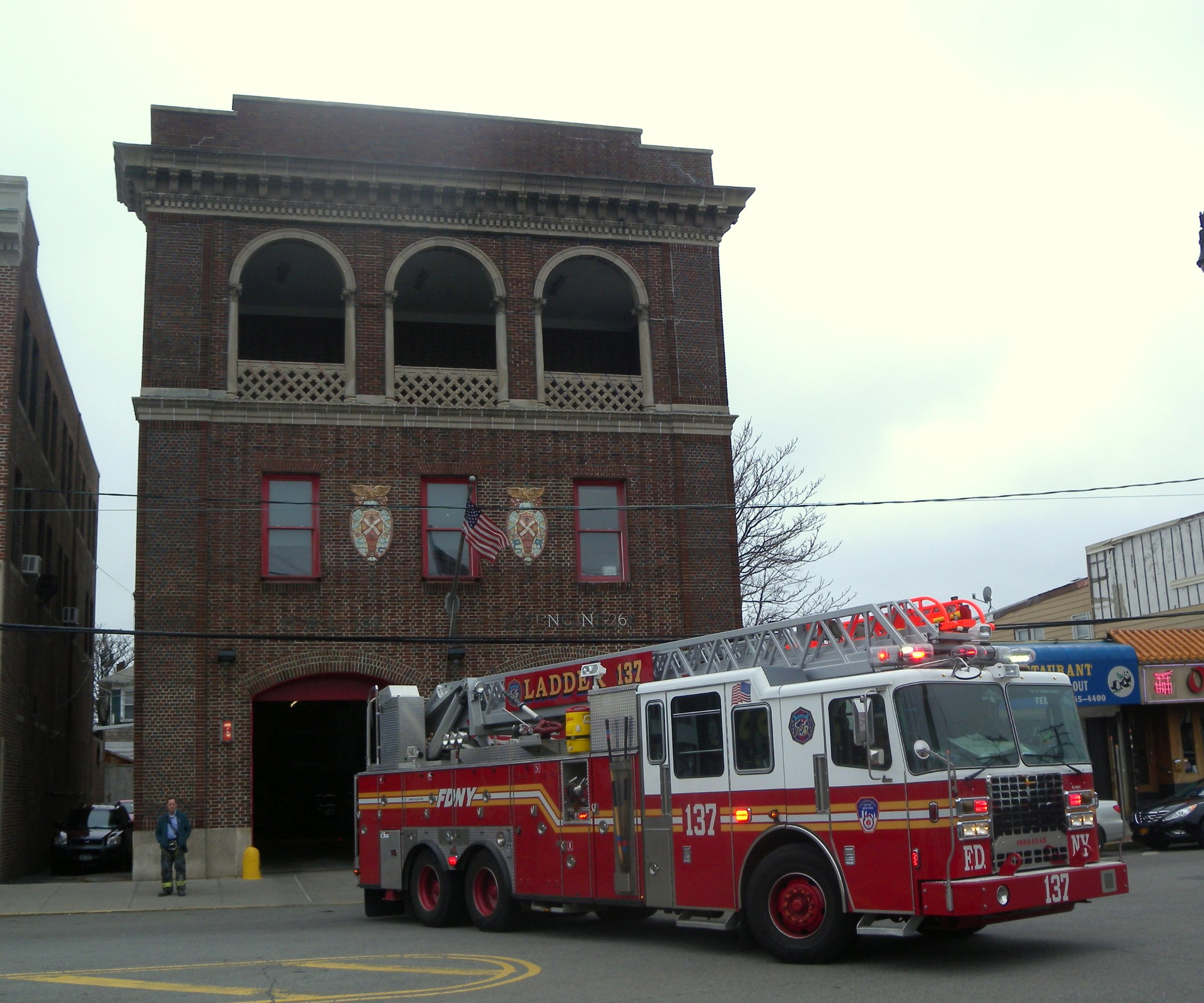 Looking west across Beach 116th St at ladder truck returning.